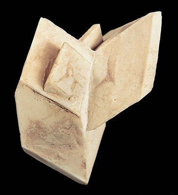 Gypsum, Glauberite Locality: Camp Verde, Camp Verde District, Yavapai County, Arizona, USA (Locality at ) Size: 4.9 x 3.1 x 2.9 cm. This is a razor-sharp pseudomorph of gypsum after flattened rhombs of glauberite, an old-timer specimen from Camp Verde in Arizona.